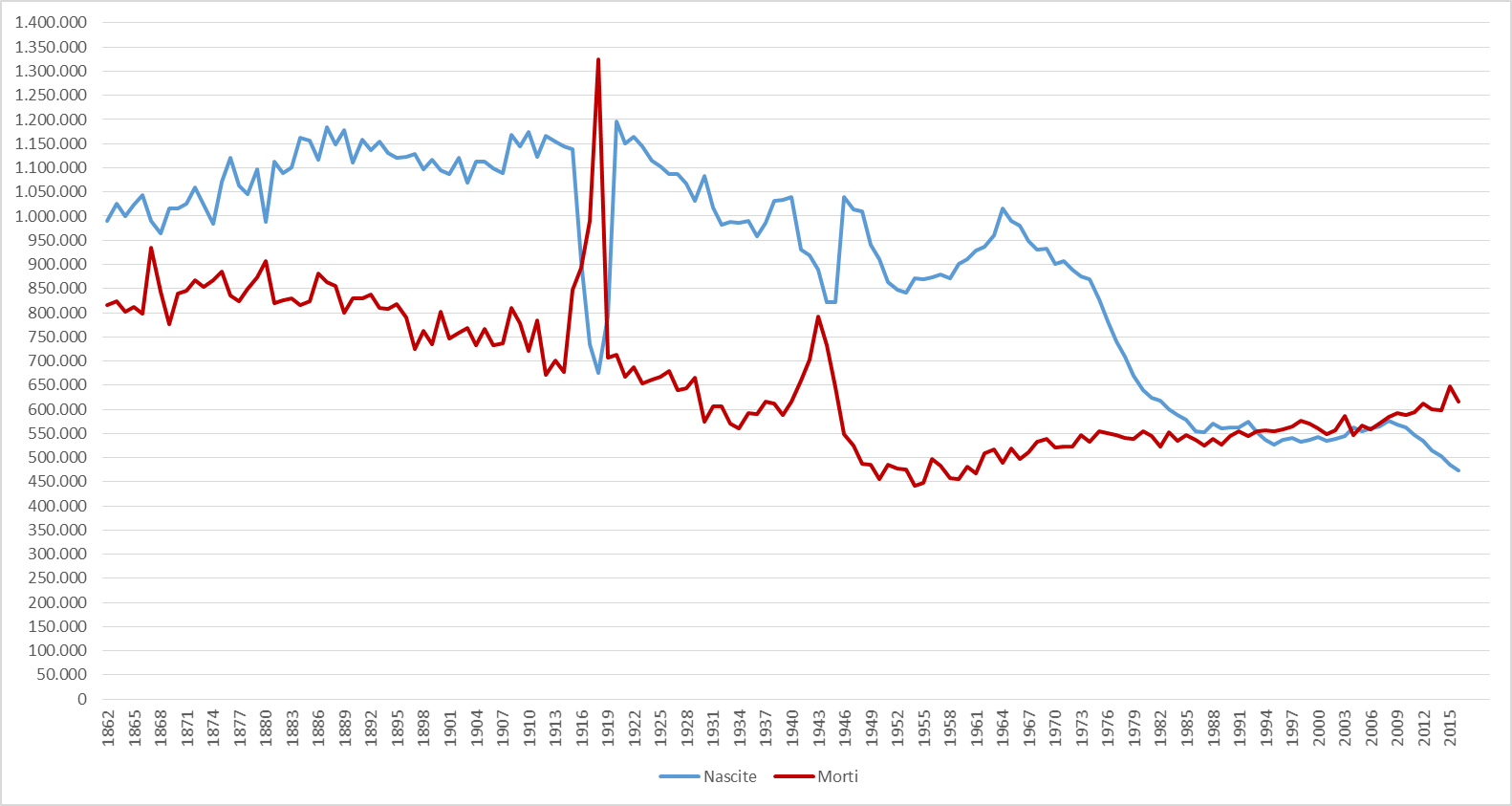 Births and deaths in Italy between 1862 and 2016